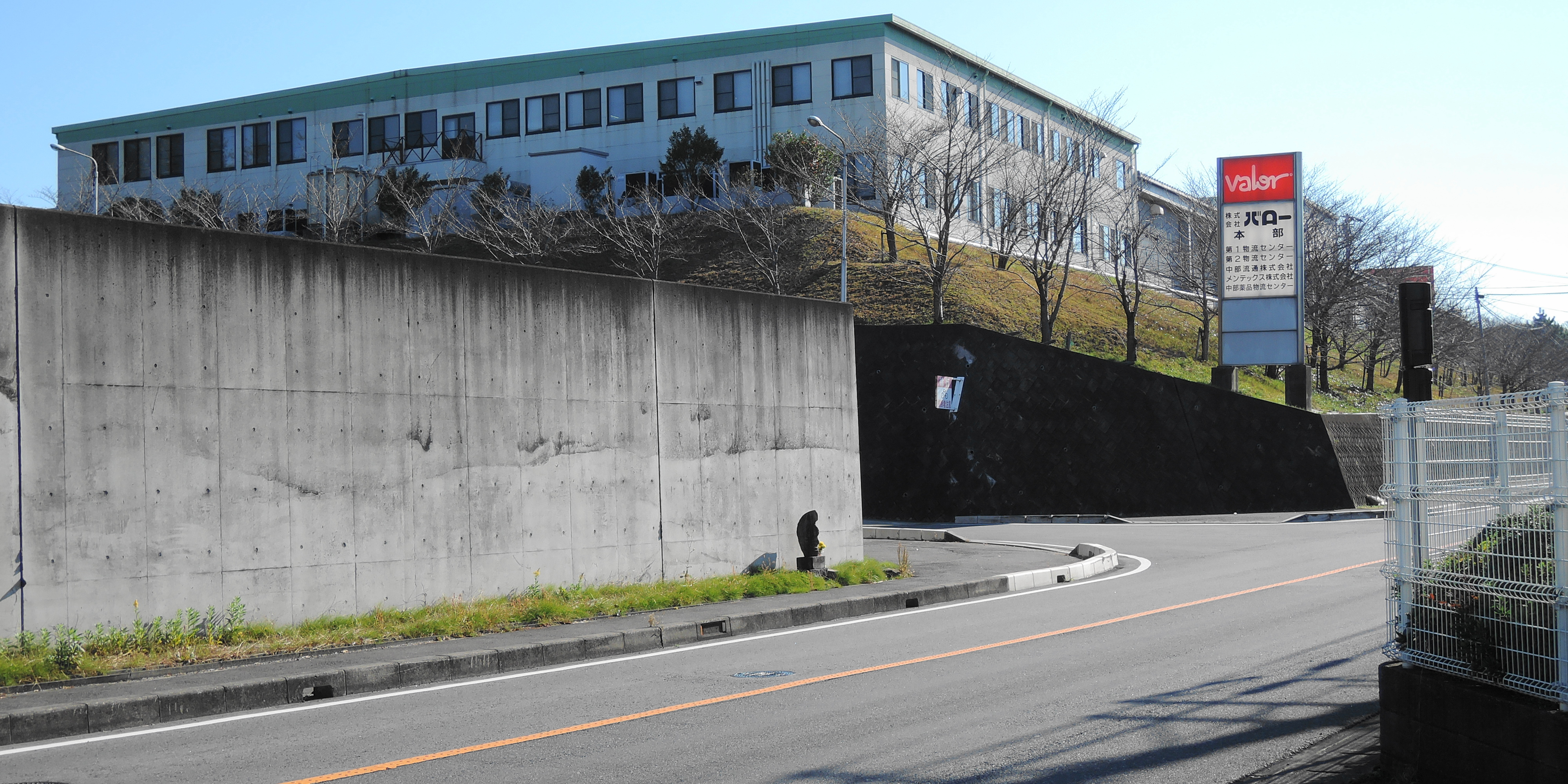 Headquarters of VALOR CO., LTD.,Gifu prefecture,Japan